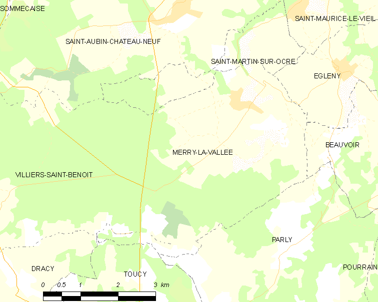 Map of French municipality Merry-la-Vallée